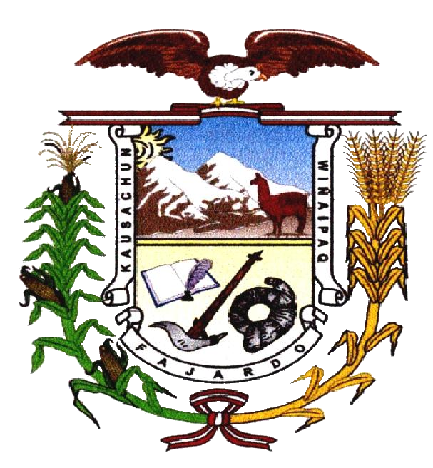 Es nuestro escudo fajardino